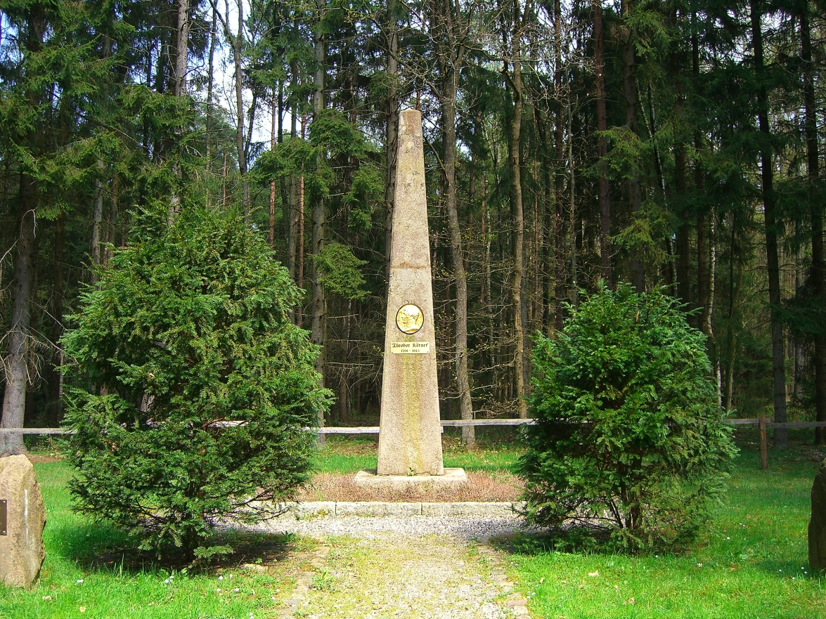 Monument to Theodor Körner in the forest Rosenow, erected in 1850, plaque 1913 by Wilhelm Wandschneider